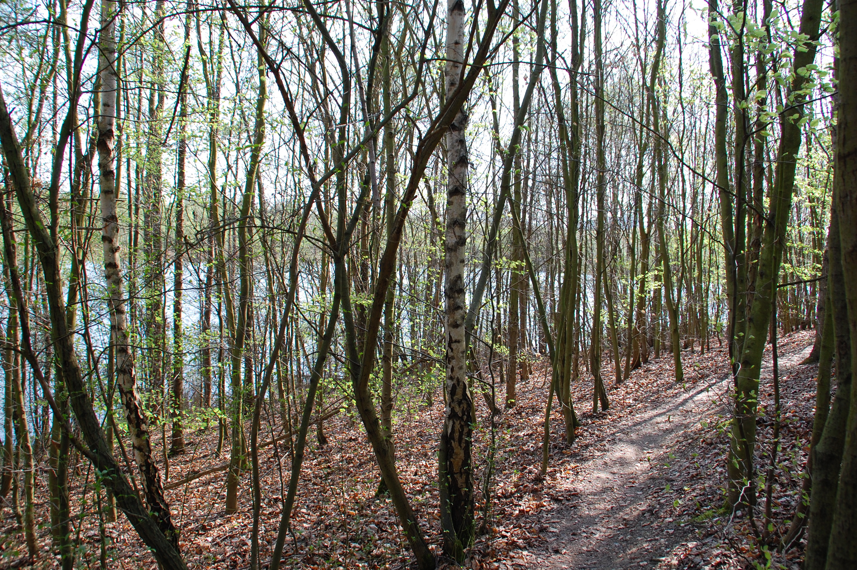 Hürther Waldsee in Hürth, Germany